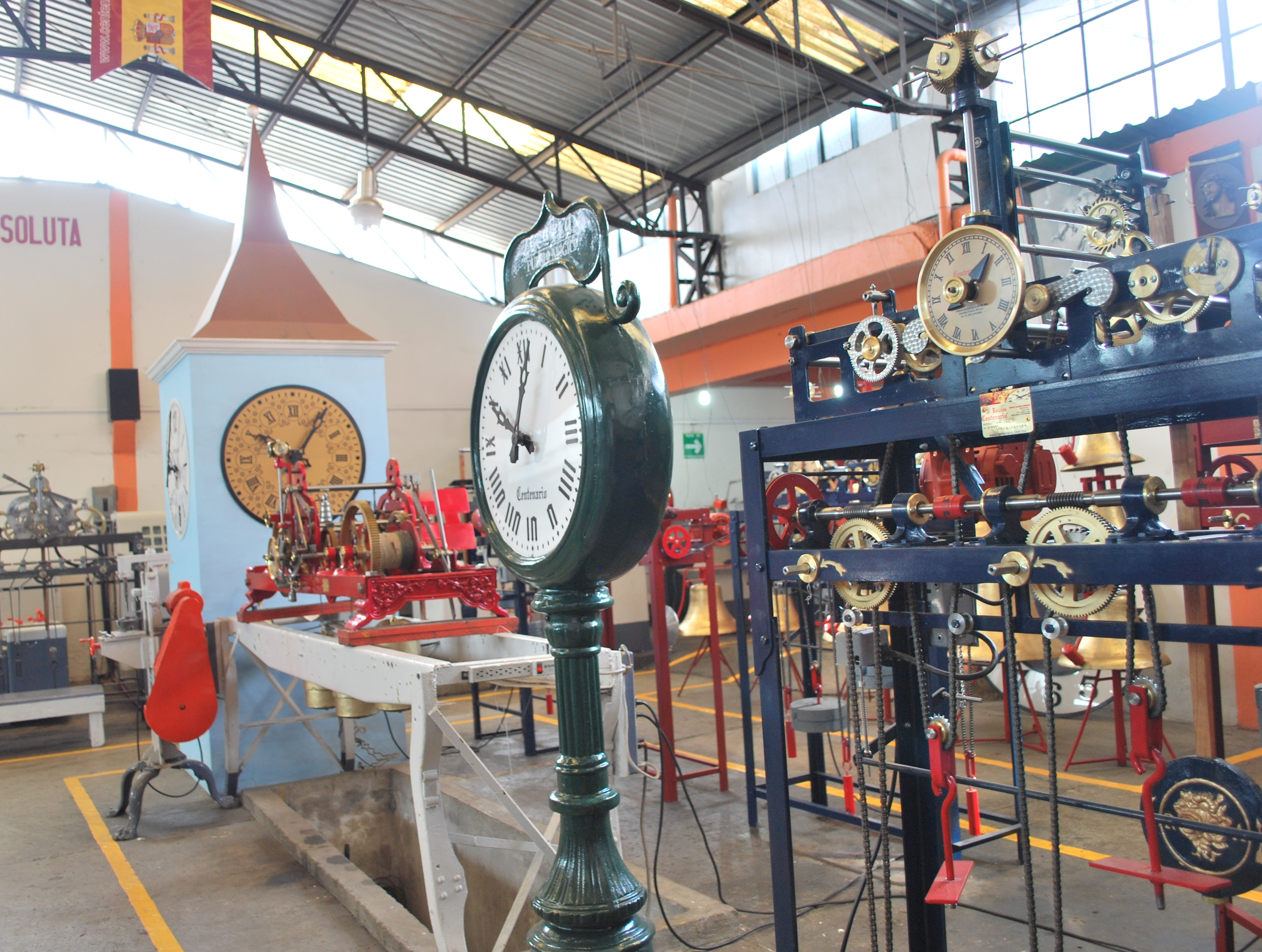 View inside the Centenario Clock factory in Zacatlán, Puebla, Mexico